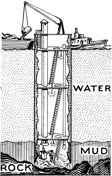 line art drawing of caisson.